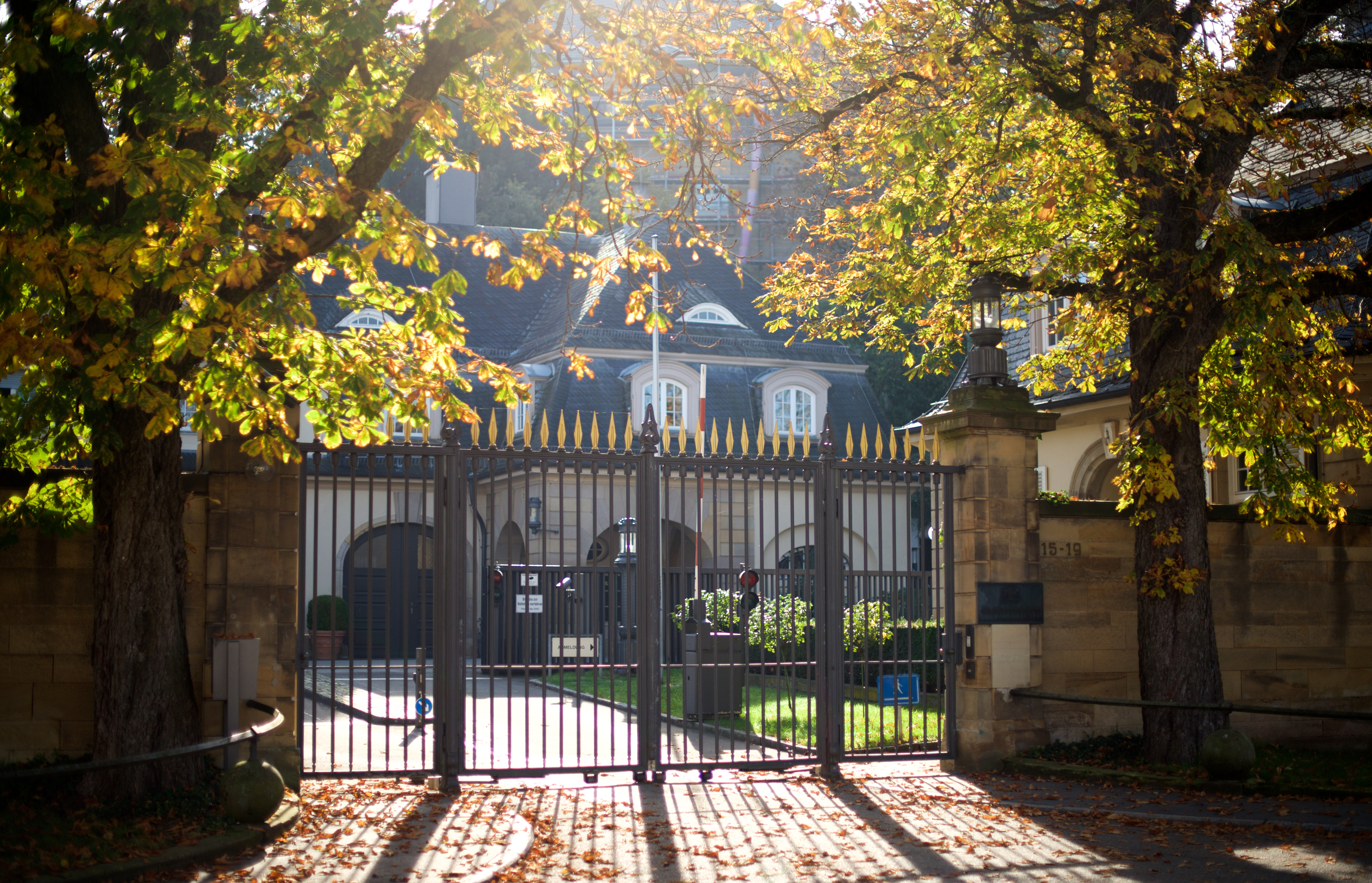 Villa Reitzenstein Gate